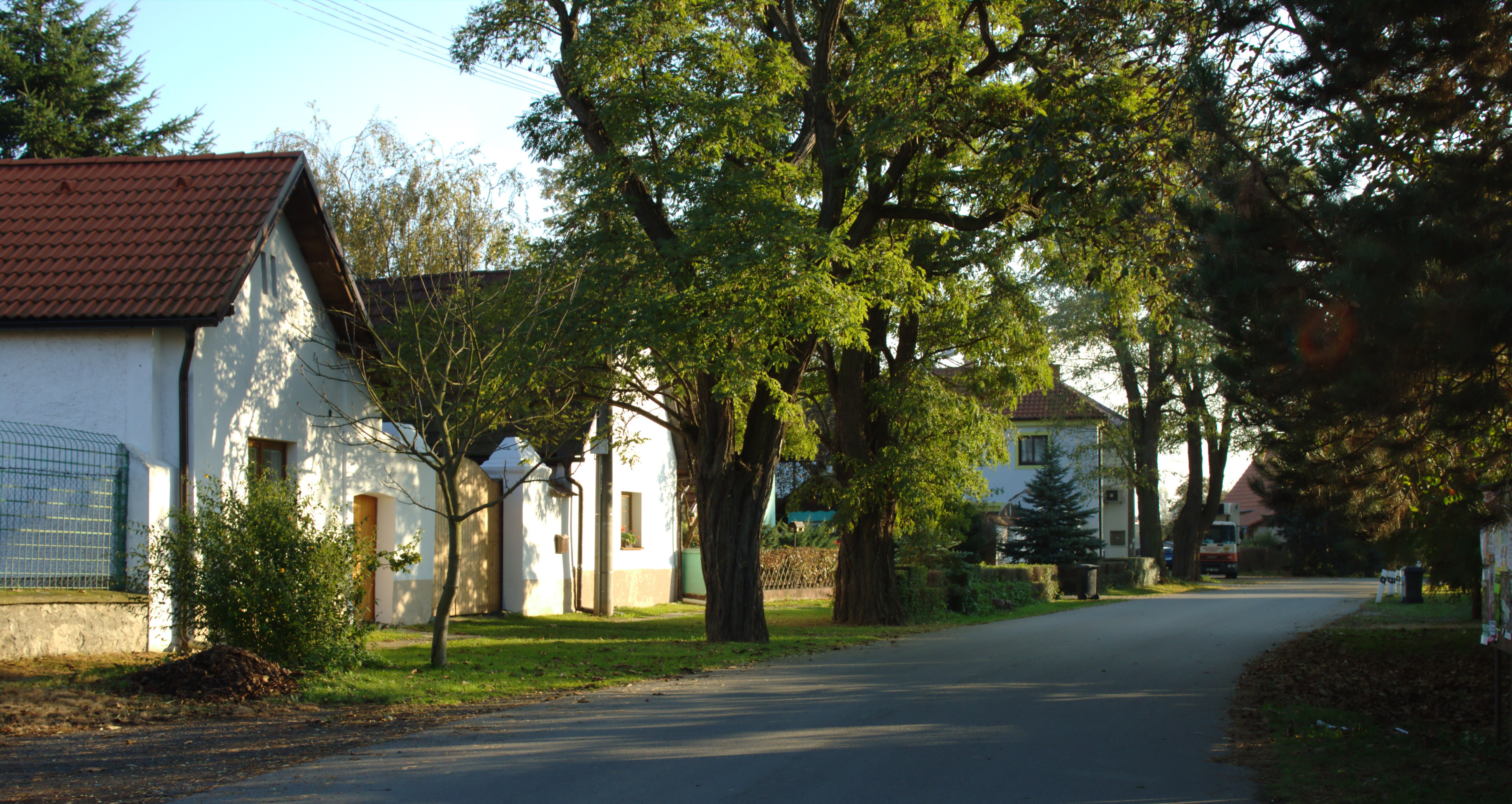 Central part of the village of Křivousy